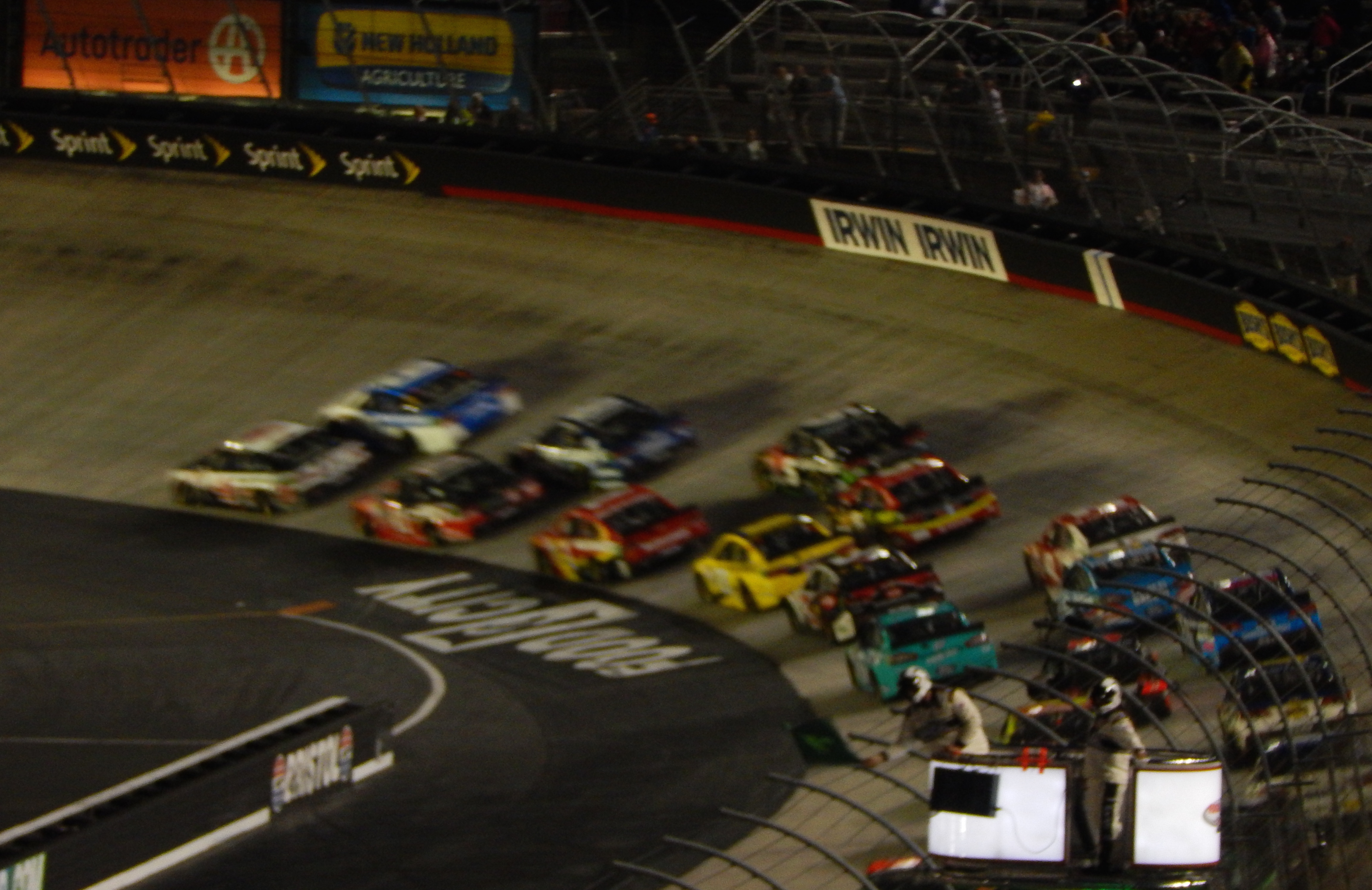 The race restarts under the lights at Thunder Valley.